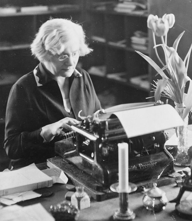 Finnish historian and the first female professor in Finland Alma Säderhjelm.